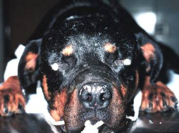 Rottweiler dog with familial vitiligo and poliosis